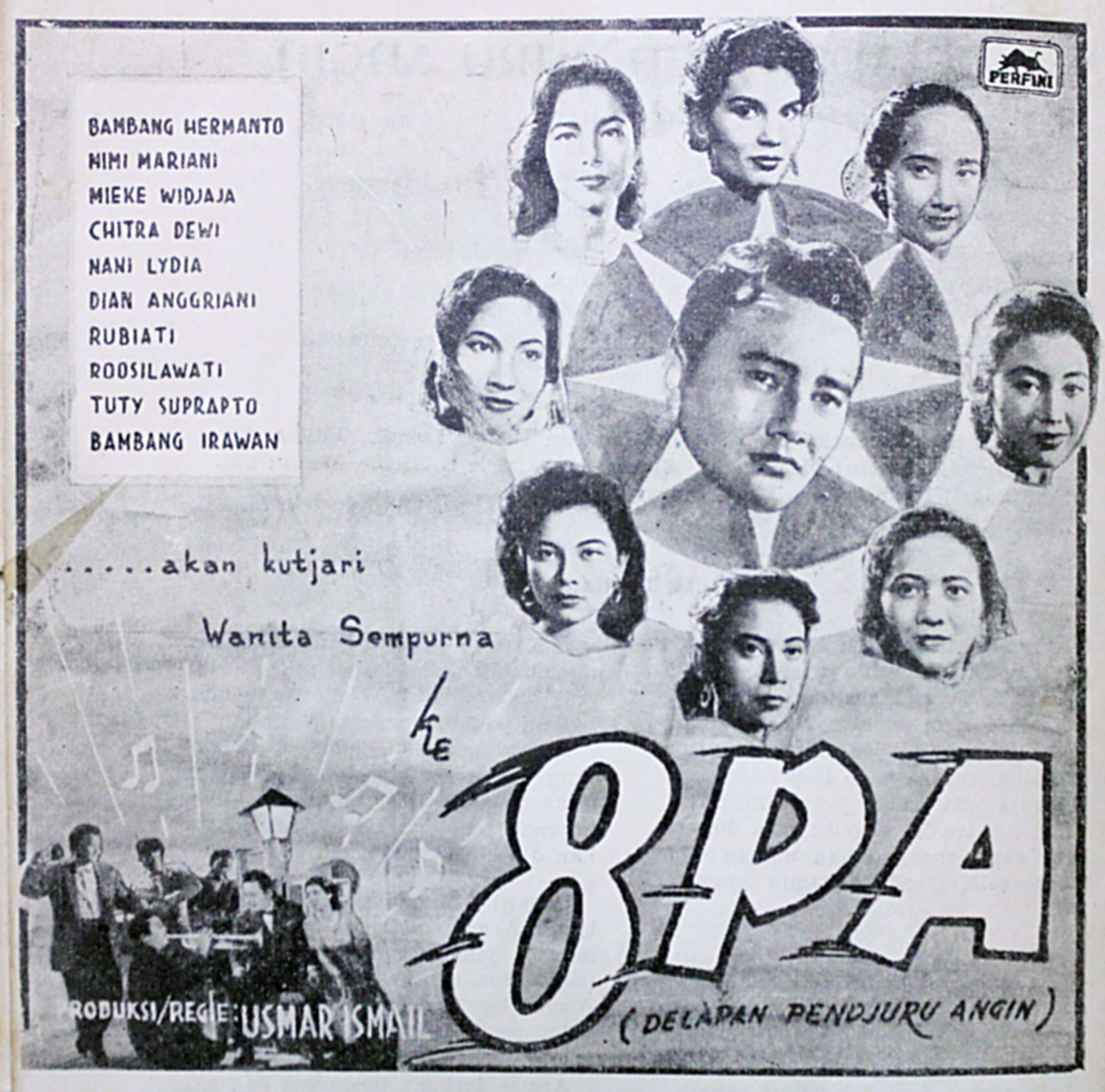 Scene from 8 Pendjuru Angin, a 1958 film from Perfini